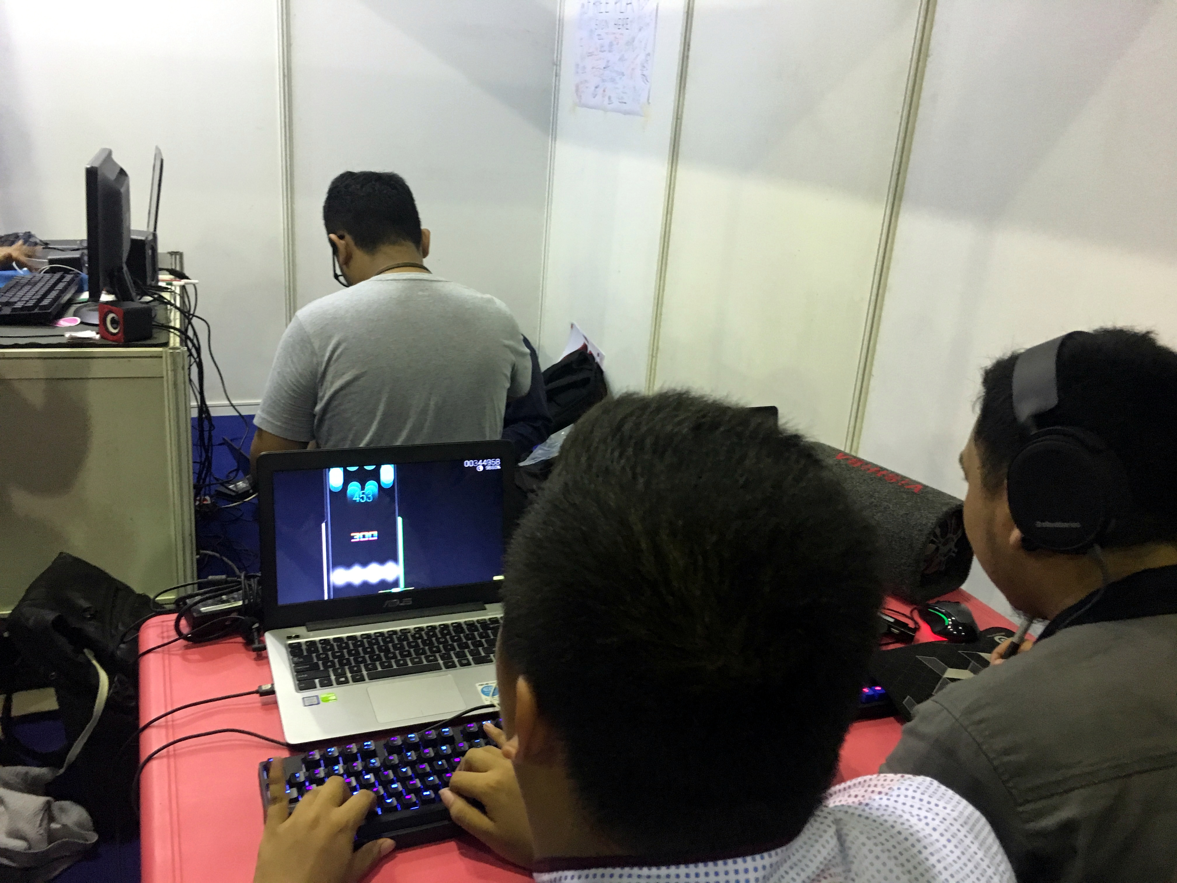 People playing Osu! in Comic Frontier 9